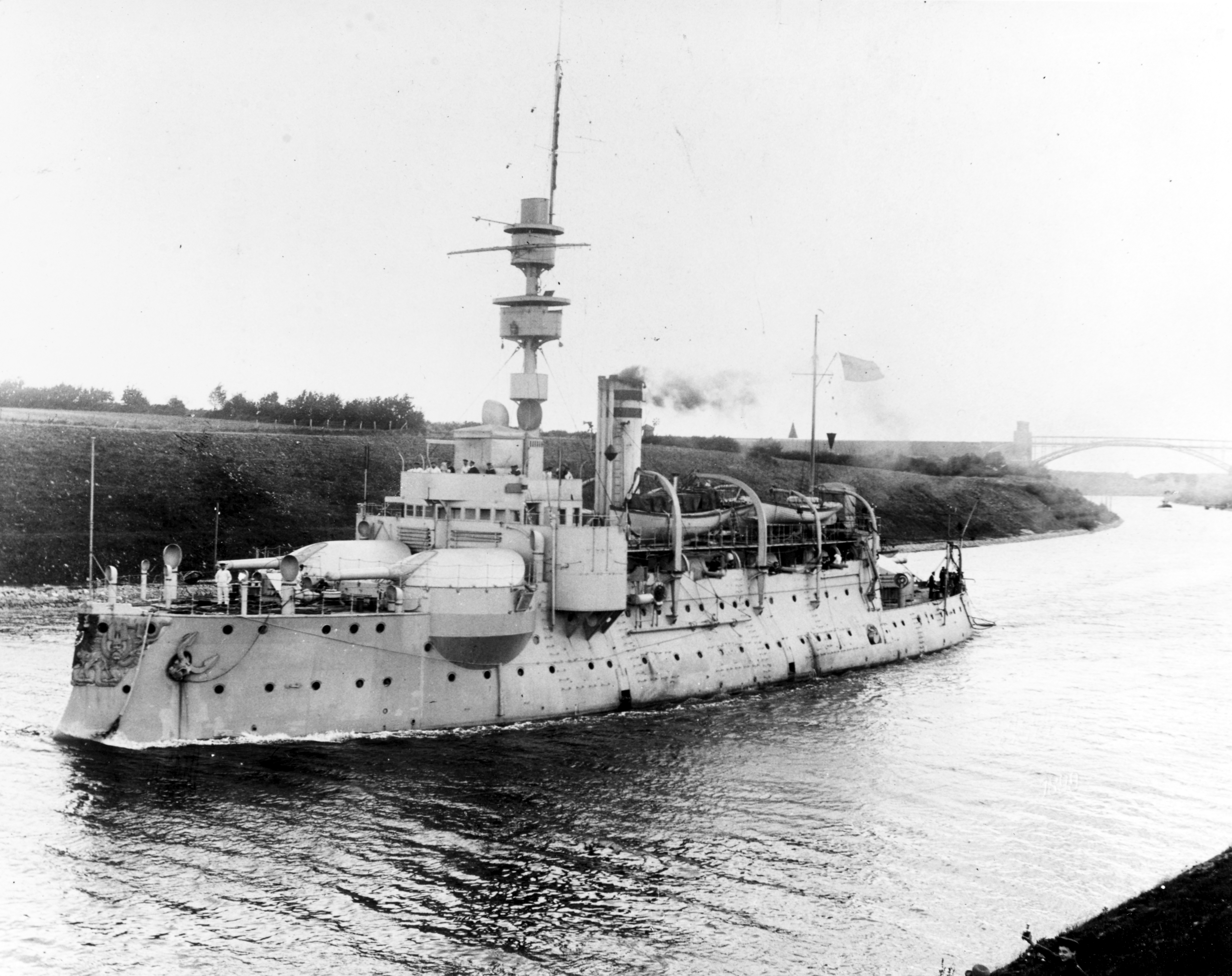 Title: ODIN (German coast defense battleship, 1894-1919) Caption: Photo by Arthur Renard, Kiel, 1899, taken before reconstruction of 1901-1903.